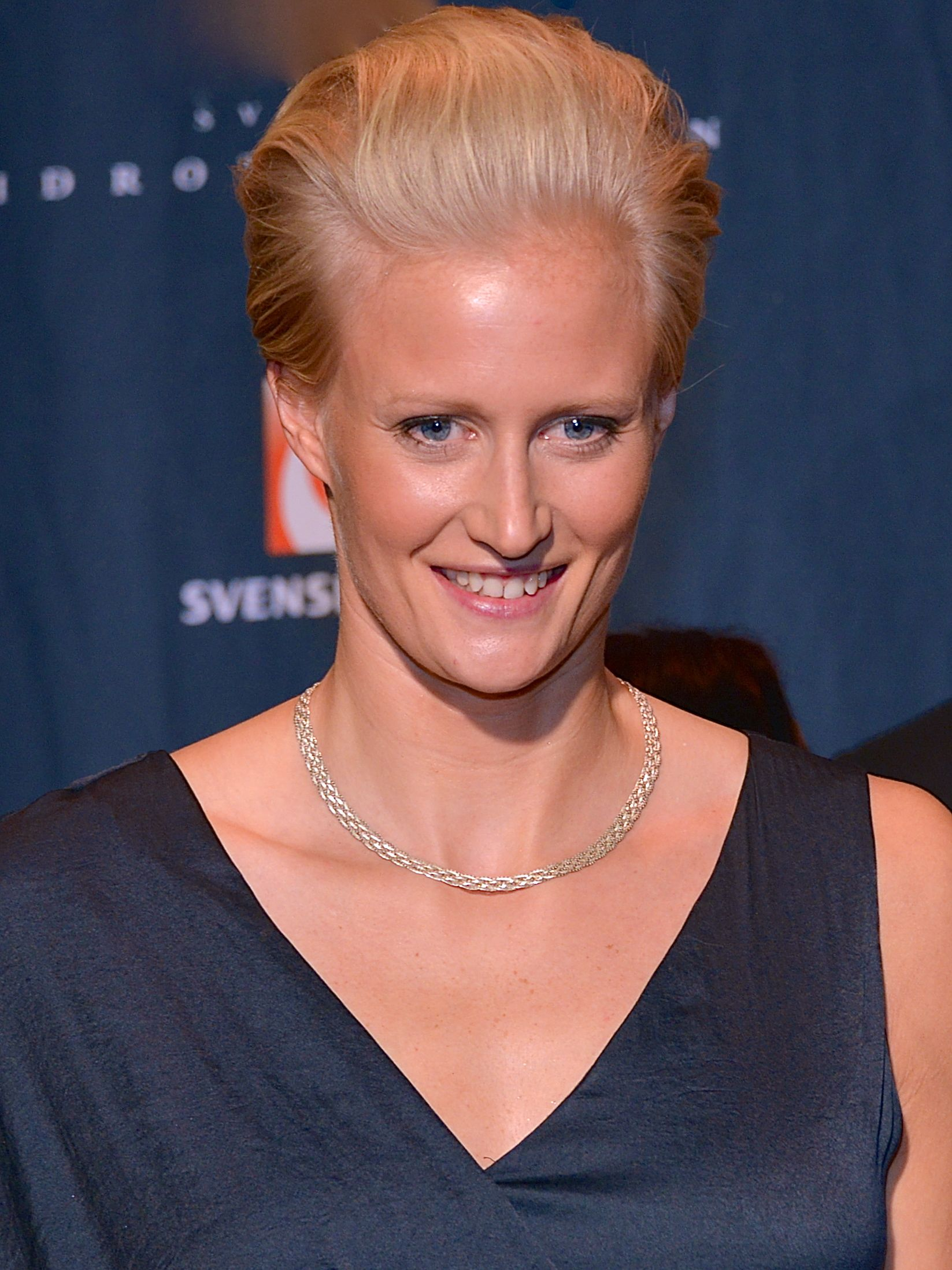 Carolina Klüft on Idrottsgalan at the Globe Arena in Stockholm on January 14th 2013.